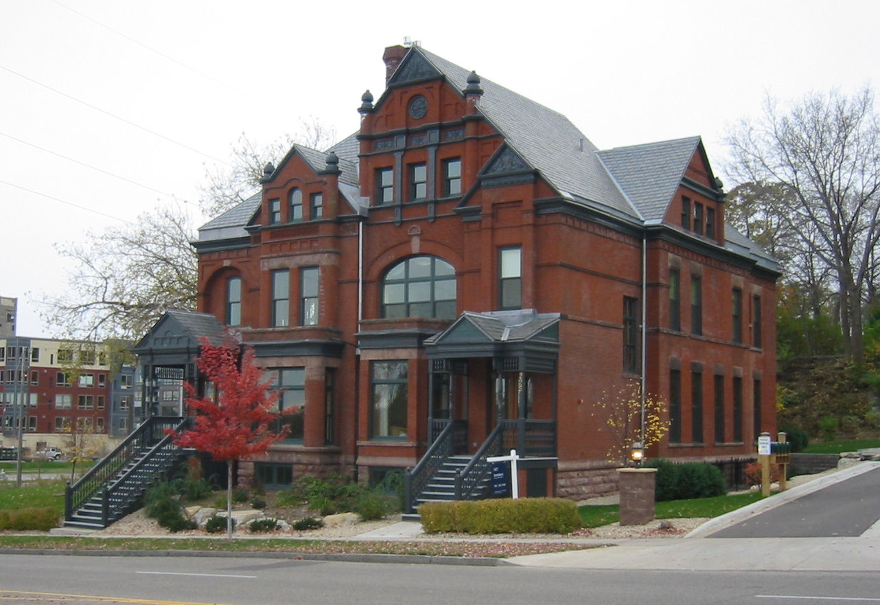 The Armstrong-Quinlan house in St. Paul, Minnesota, within the Irvine Park Historic District.